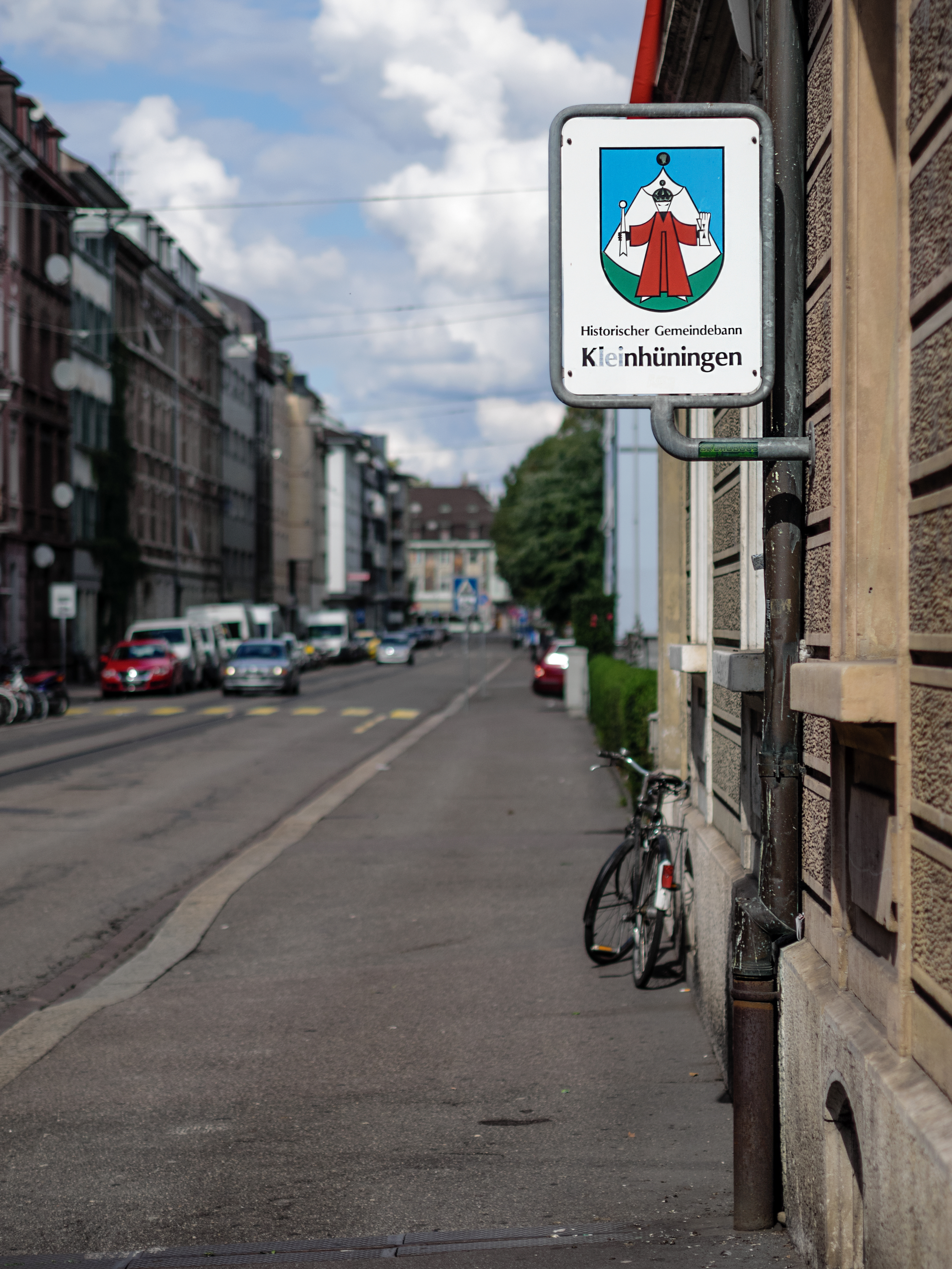 The sign shows the historical municipality bann of Kleinhüningen, Basel, Switzerland.